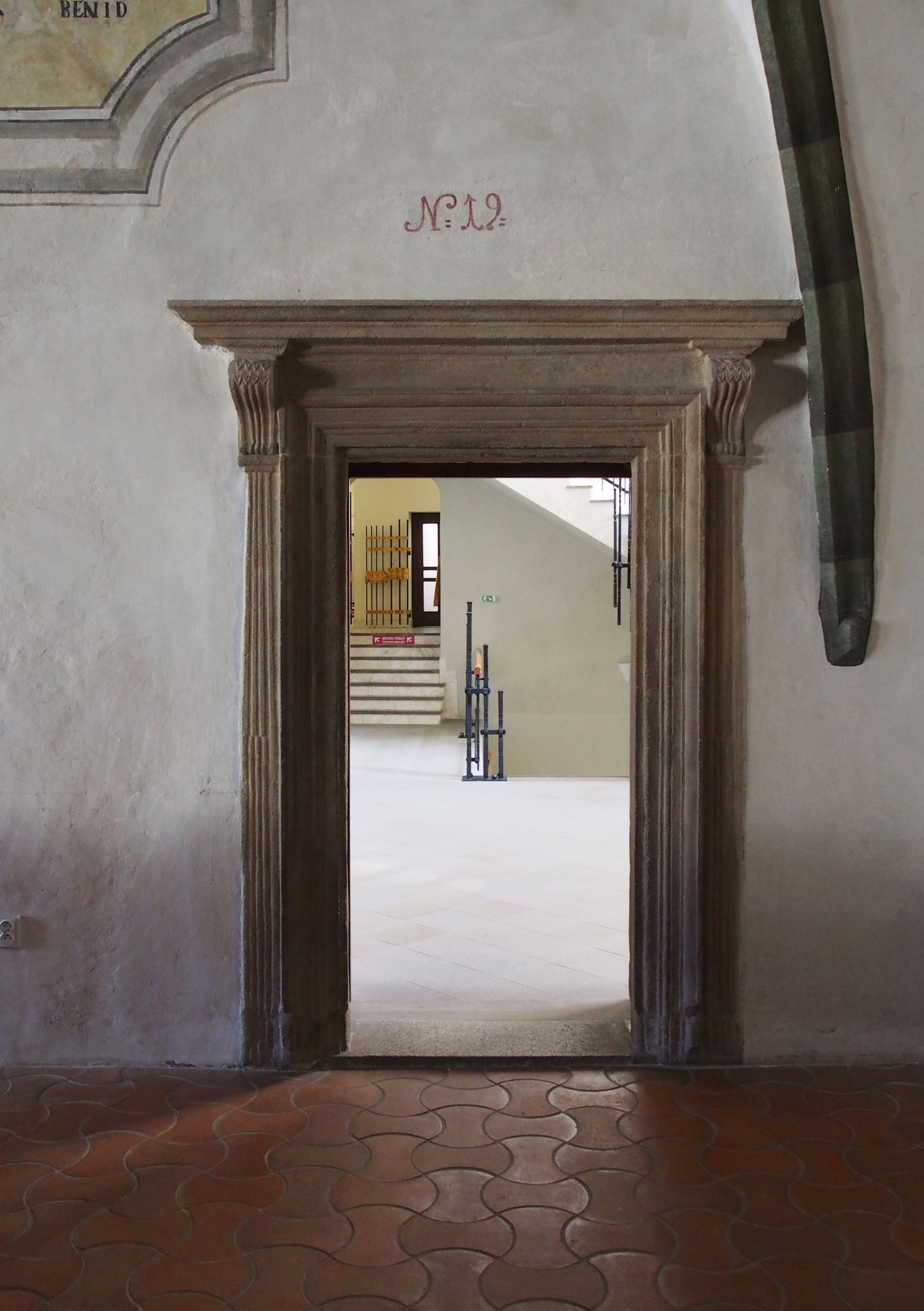 renessaince portal